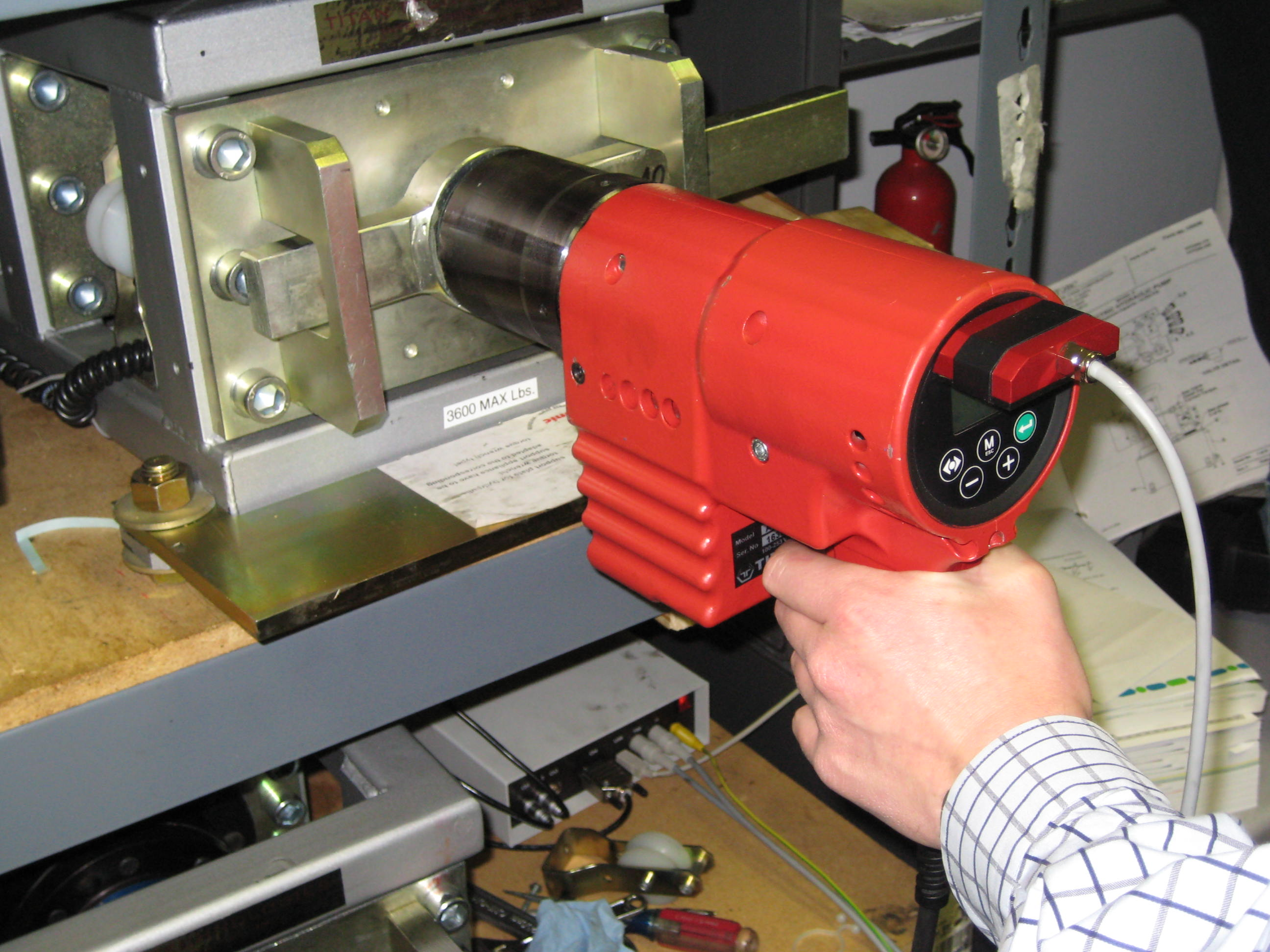 Electric Torque Wrench Calibration